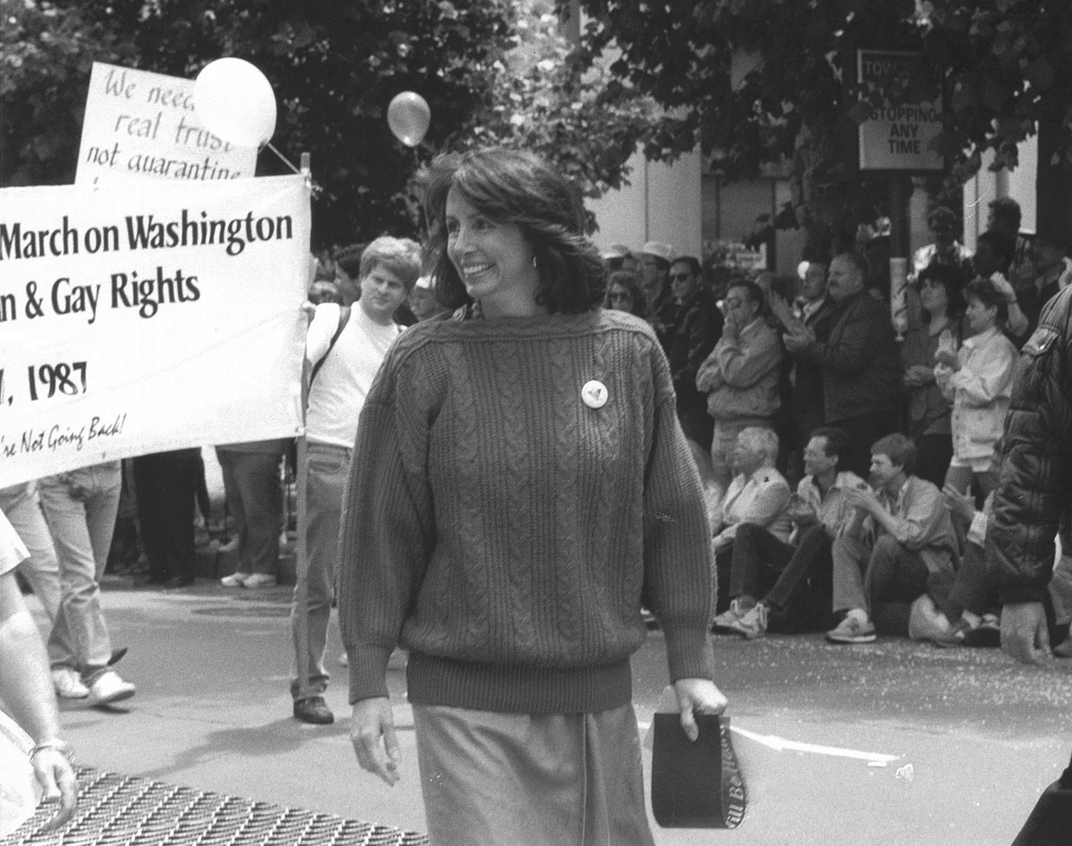 Congresswoman Pelosi, pictured proudly marching for equal rights in 1987, celebrates the Supreme Court decisions striking the discriminatory Defense of Marriage Act and allowing marriage equality for all California families.